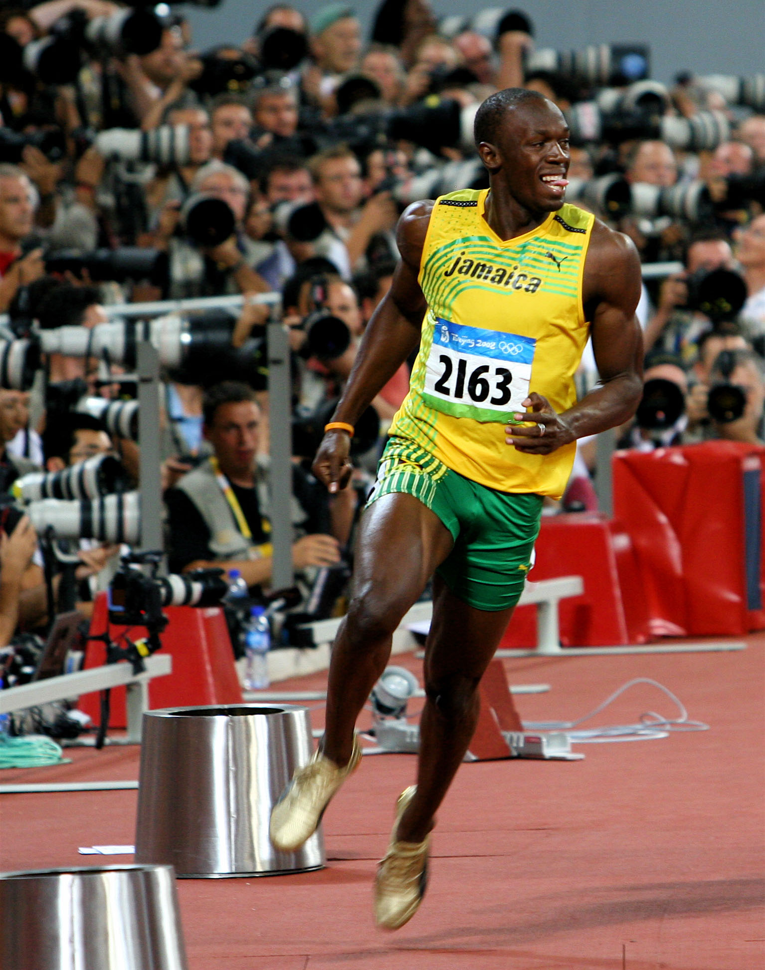 Usain Bolt in celebration about 1 or 2 seconds after his 100m victory at Beijing Olympics 2008, breaking the world record.